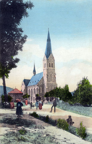 Máriaremete, today part of the 2nd district of Budapest around 1900